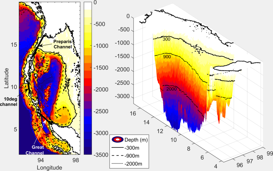 From “General Circulation and Principal Wave modes in Andaman Sea from Observations”